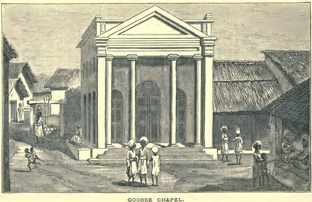 Gobbie Chapel (Thomas Hodson, 1877)